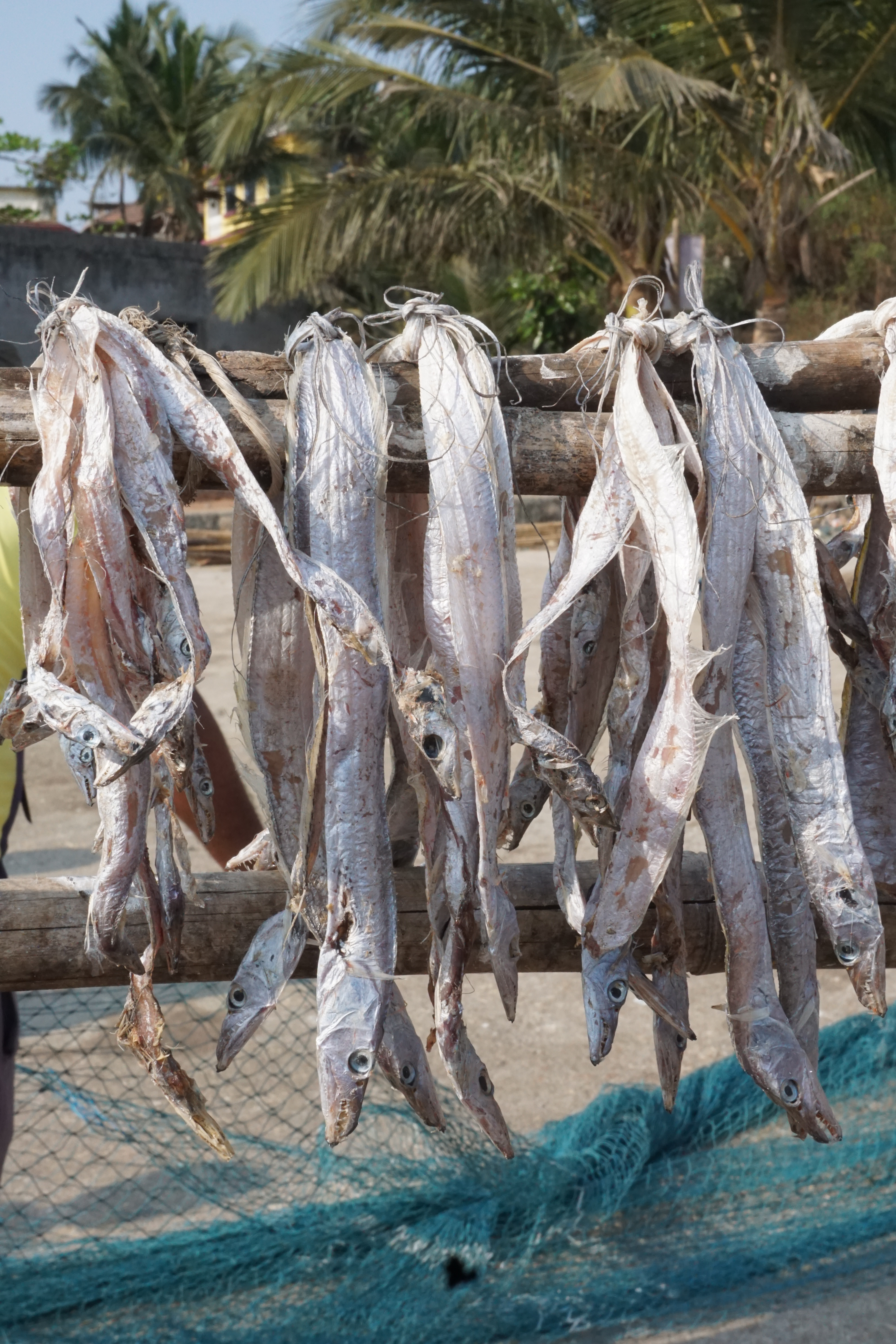 Uttan - Velankanni Beach fishes